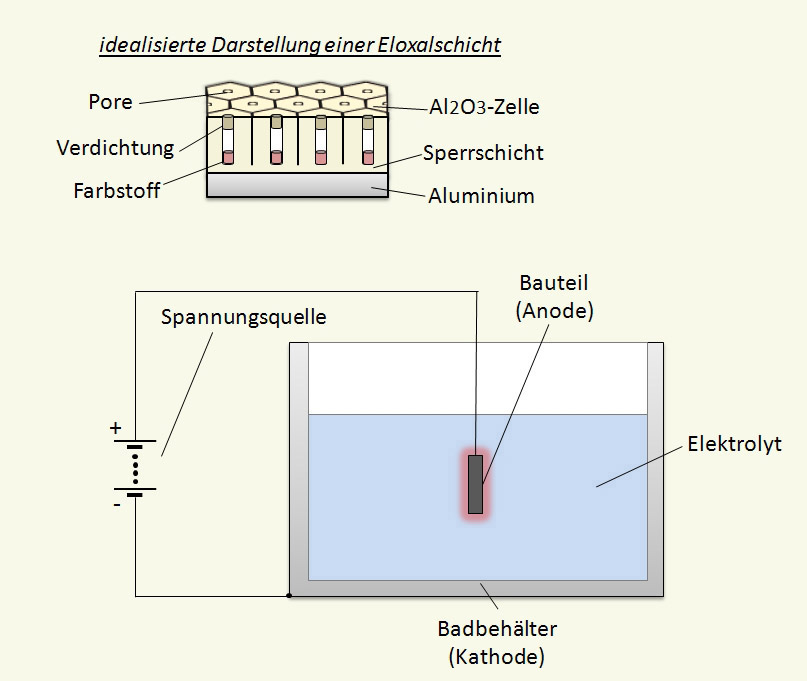 The anodizing technique or anodic oxidation is an electrolytic procedure for the generation of oxide layers on metals.